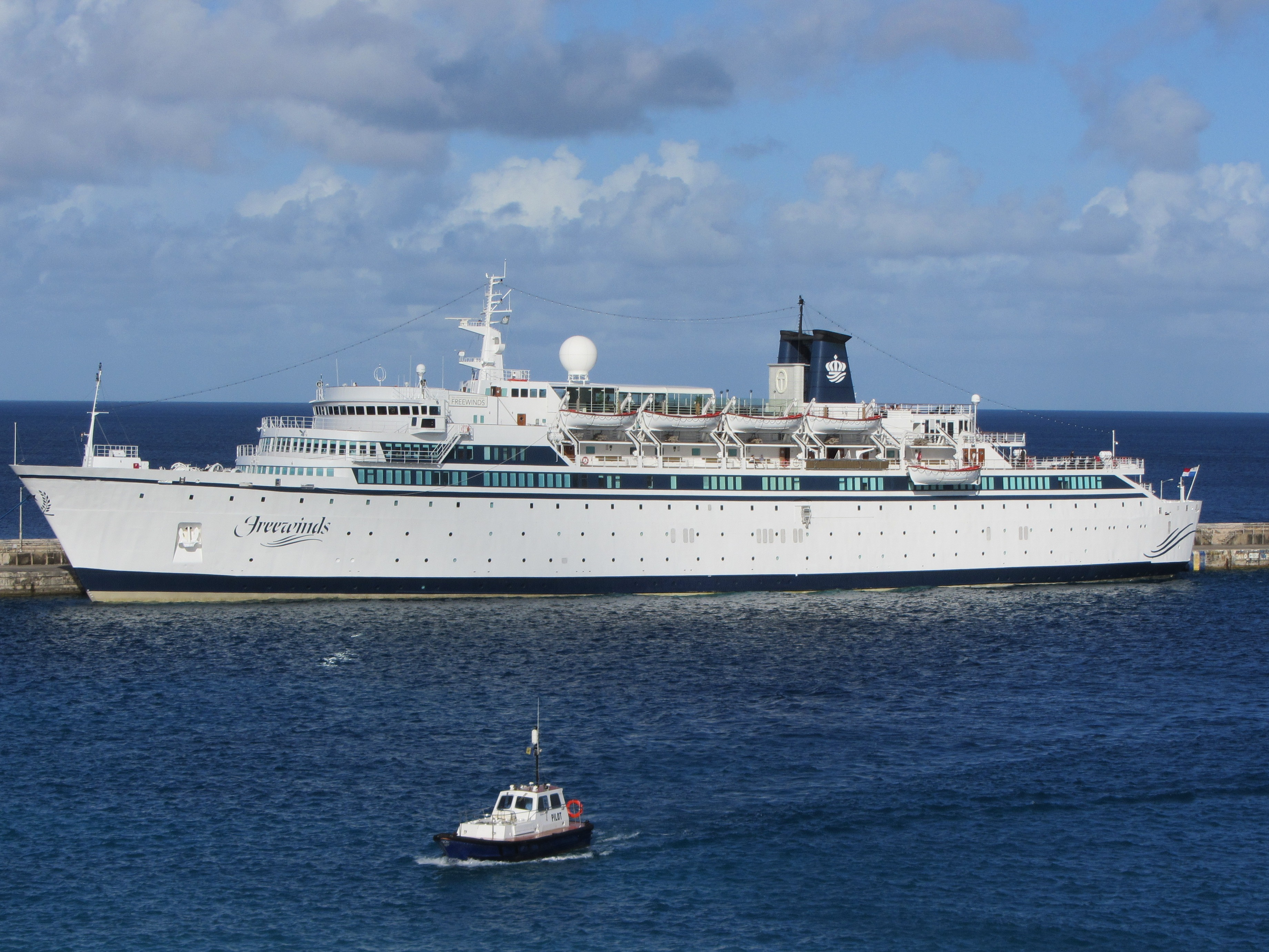 M/s Freewinds and Pilot boat at the Port of Bridgetown in Barbados